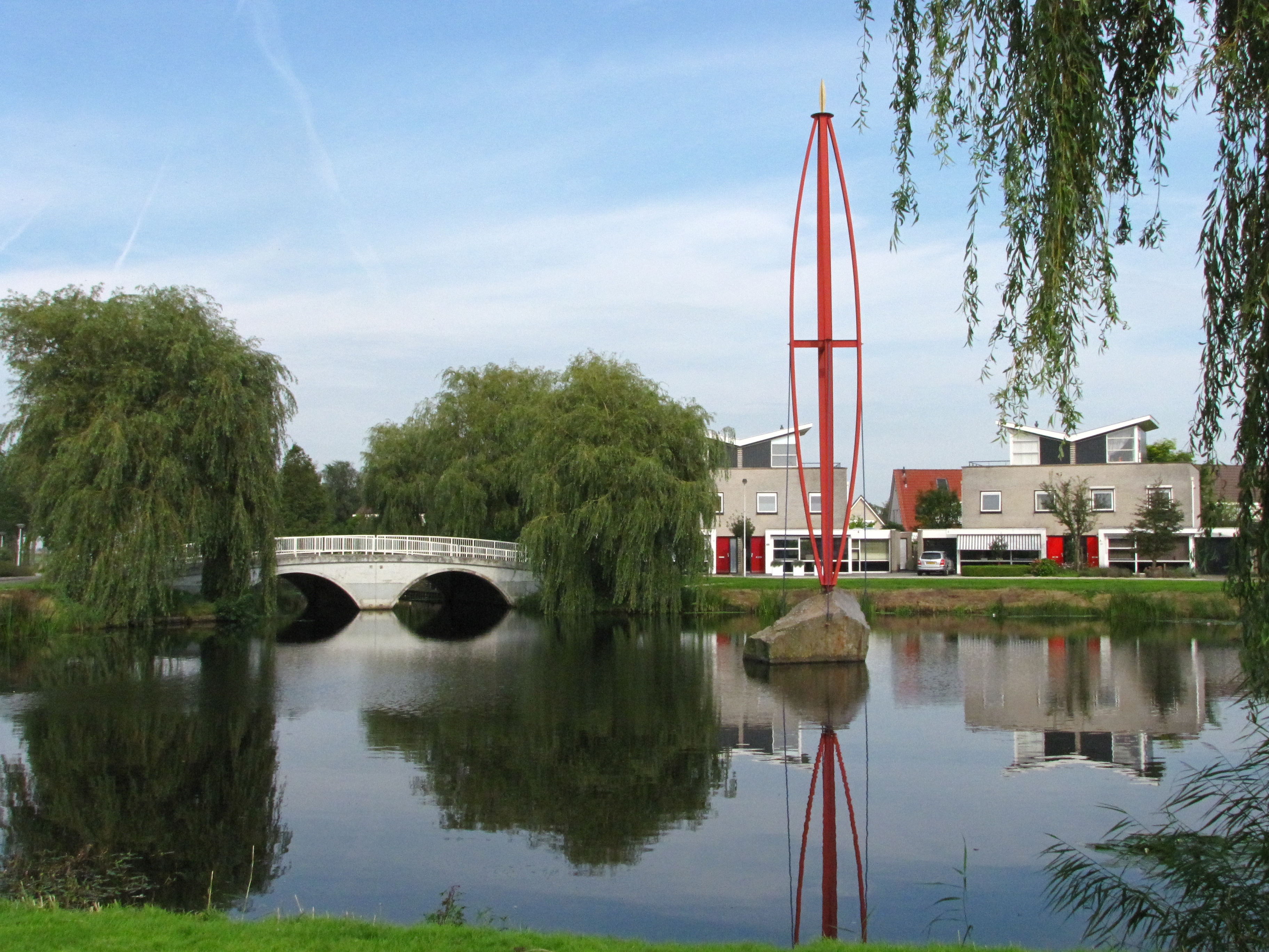 Town of Joure, art in pond in the neighborhood of Skipsleat.